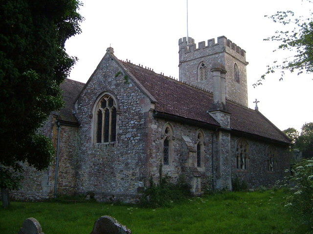 St Michael and All Angels' parish church, Church Green, Farway, Devon, seen from the northeast